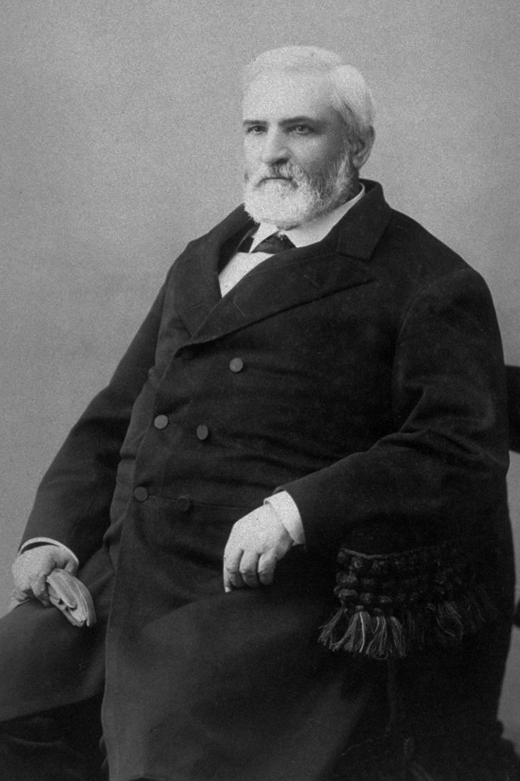 Washington Montgomery Bartlett (1824–1887), Mayor of San Francisco and later Governor of California.